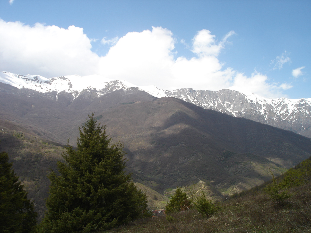 Jakupica-Mokra mountain in Azot region, Macedonia